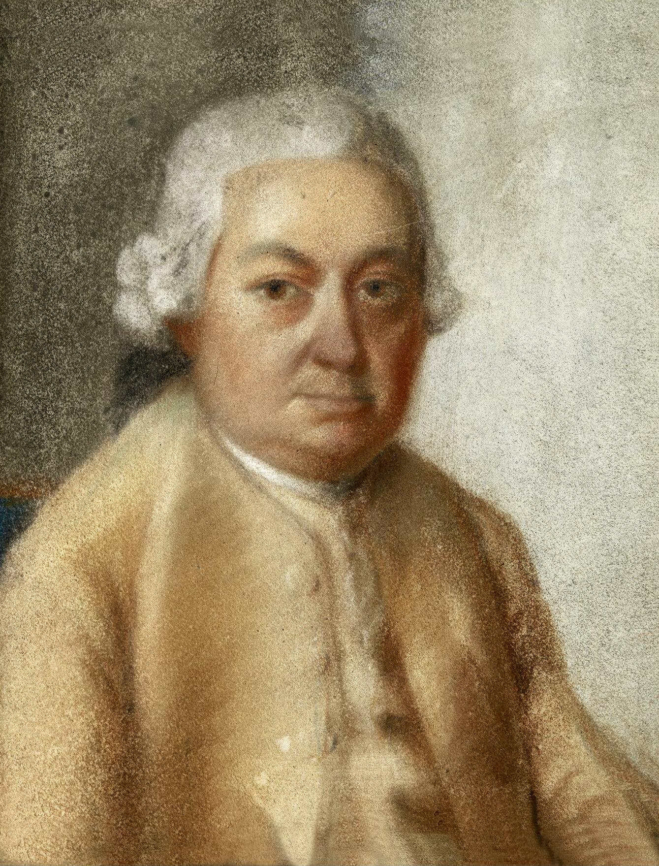 Depicted person: Carl Philipp Emanuel Bach